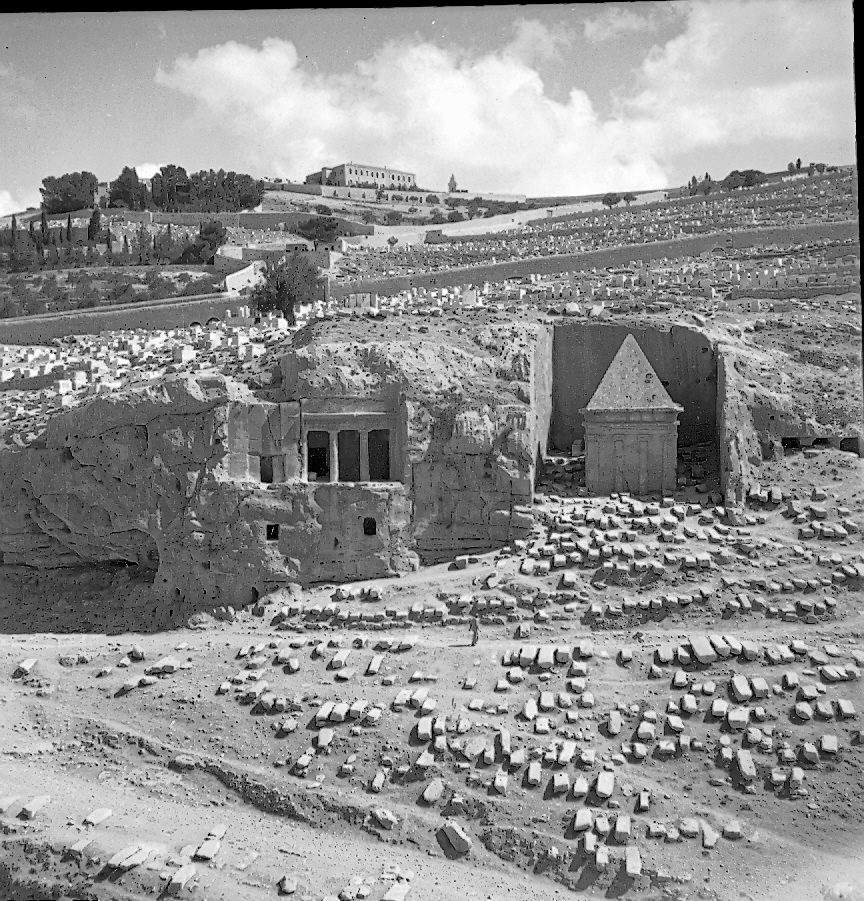 Jerusalem - Tomb of Zechariah, Cities in Israel